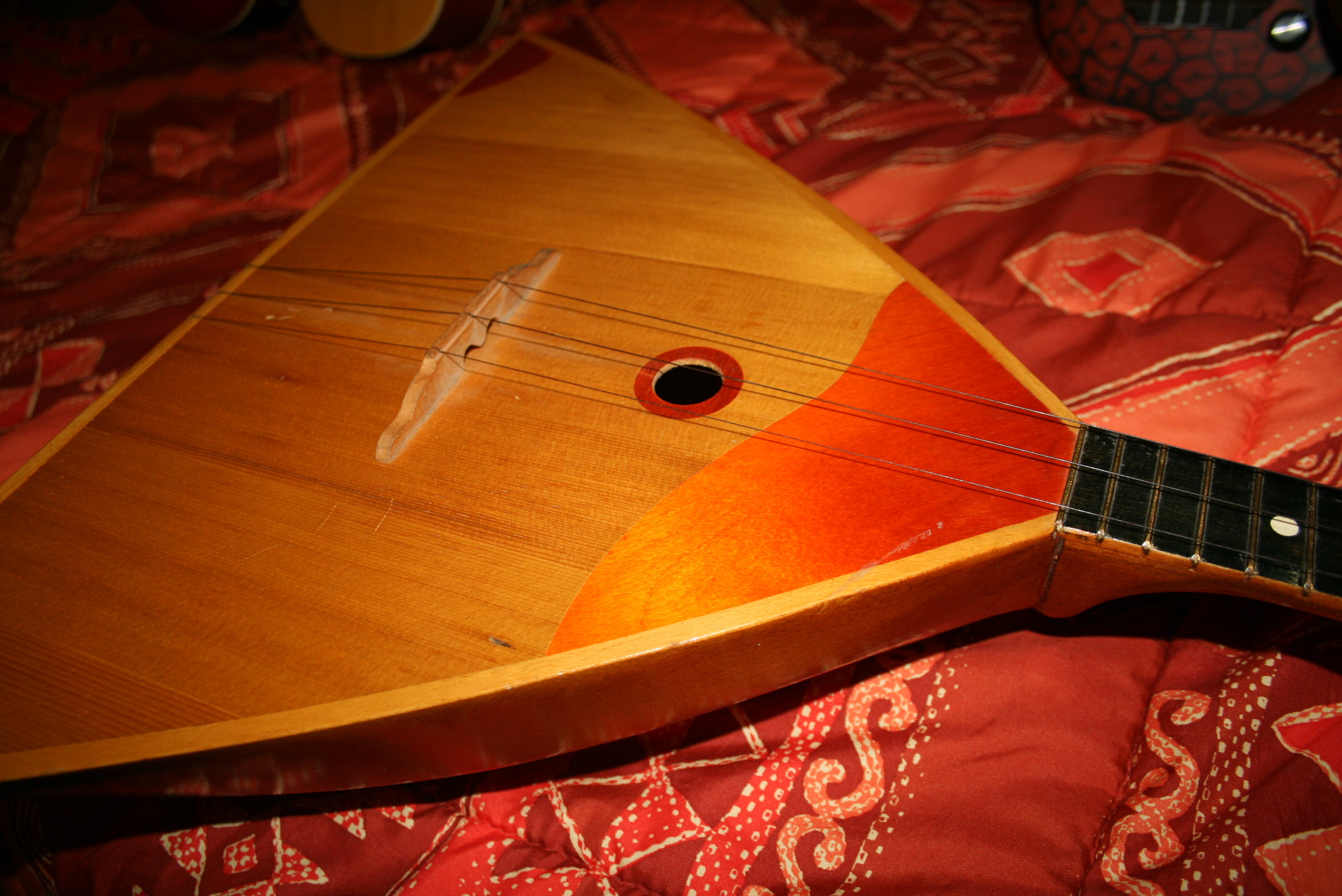 Balalaïka - 1981 - Model of 1980 made for the Olympic Games of Moscow (Москва)